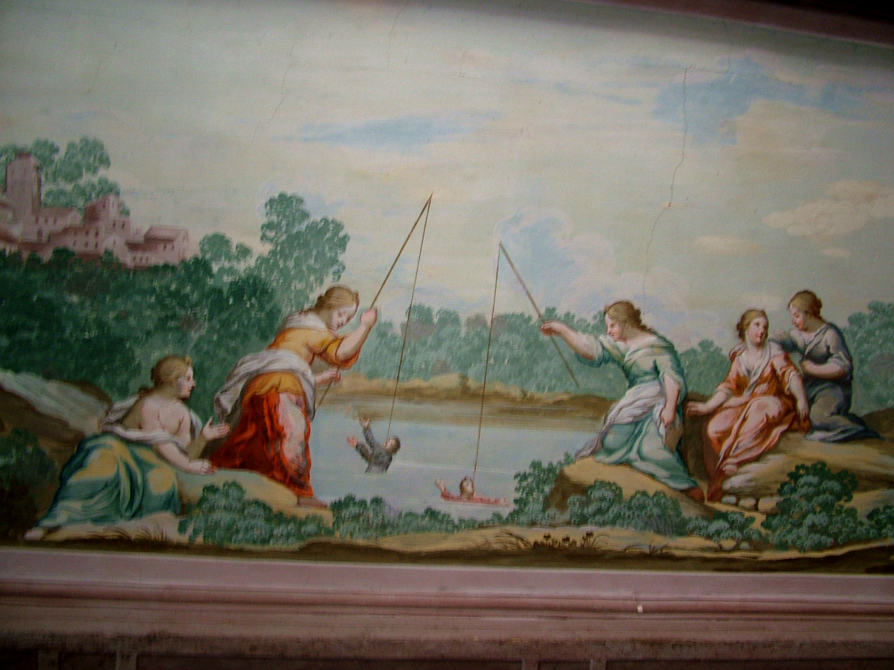 see above